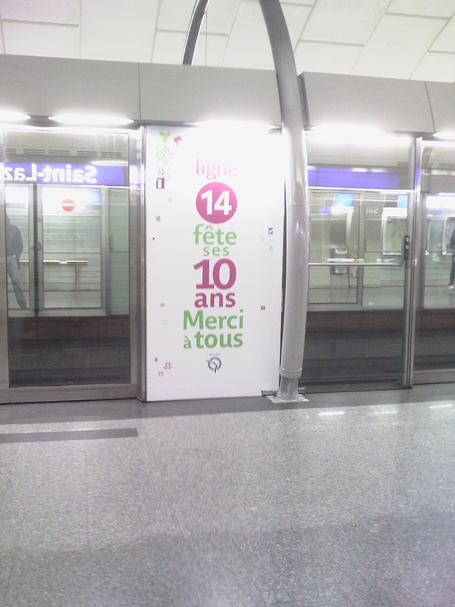 Poster for the 10th anniversary of the line 14. Saint-Lazare station, Paris